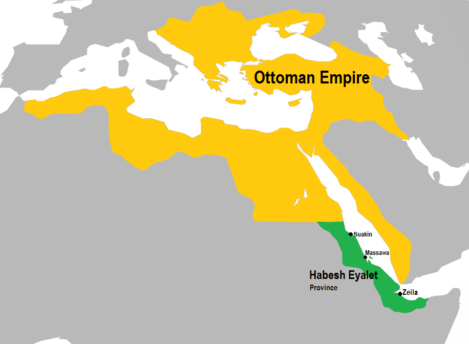 Habesh Eyalet